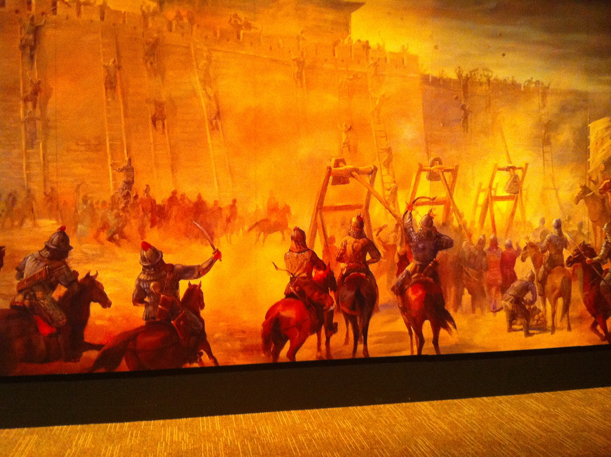 Mural of seige warfare, Genghis Khan Exhibit, Tech Museum San Jose, 2010